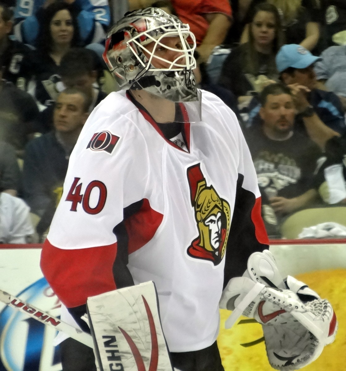 Ottawa back-up goaltender Robin Lehner saw action in game two of the Senators' second round series against the Pittsburgh Penguins, May 17, 2013 at Consol Energy Center in Pittsburgh, PA. Lehner allowed one goal on 21 shots in the Sens' 4-3 loss.